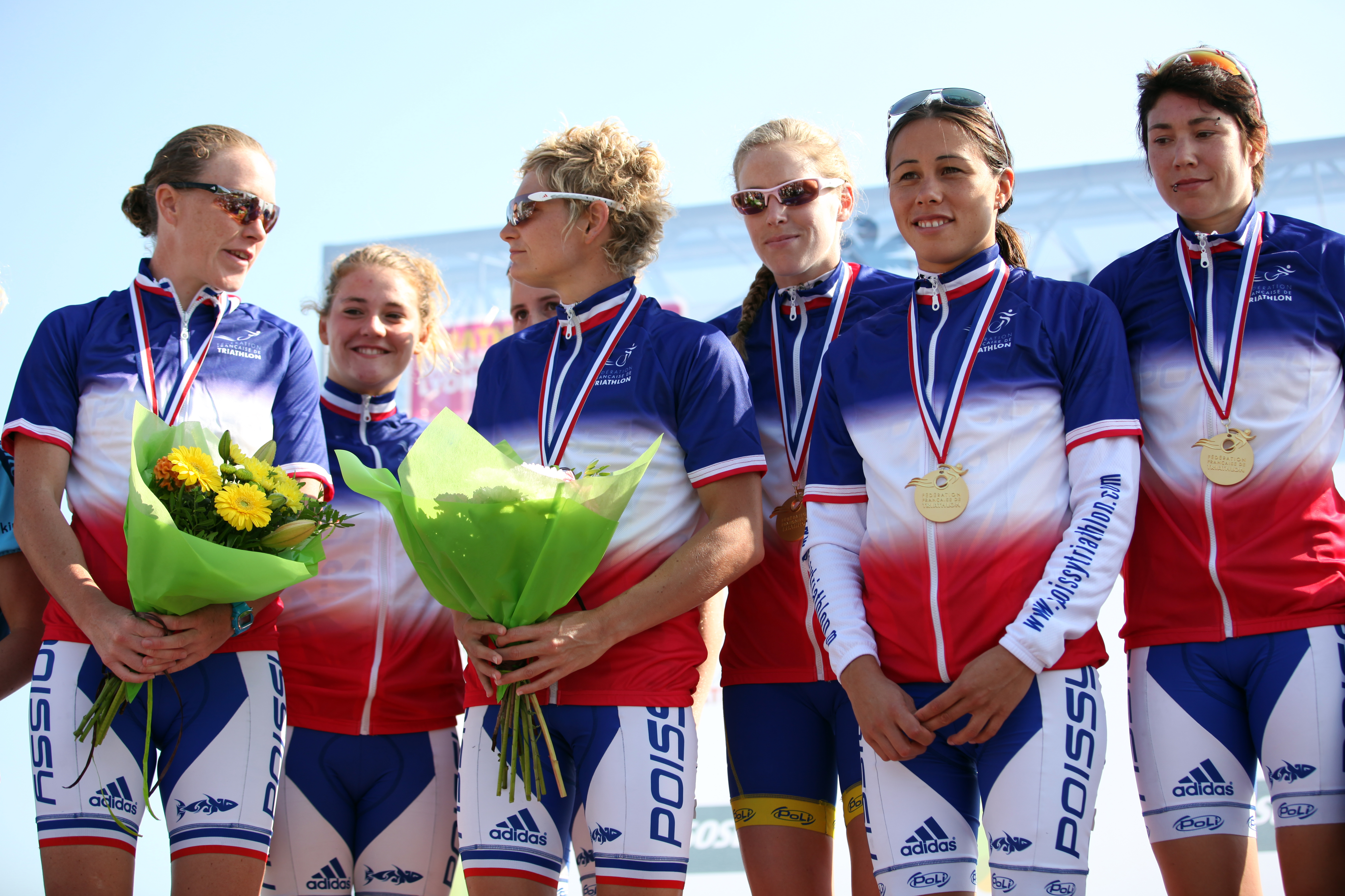 Jessica Harrison, Carole Peon, Aileen Morrison, Andrea Hewitt, and Kathrin Müller, the team of POISSY TRIATHLON at the Grand Final of the French Club Championship Series (Grand Prix de Triathlon, Lyonnaise des Eaux) in Nice (Nizza) 2012.